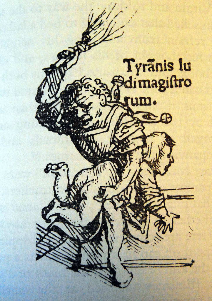 Schoolboy receiving bare bottom birching, from a medieval source